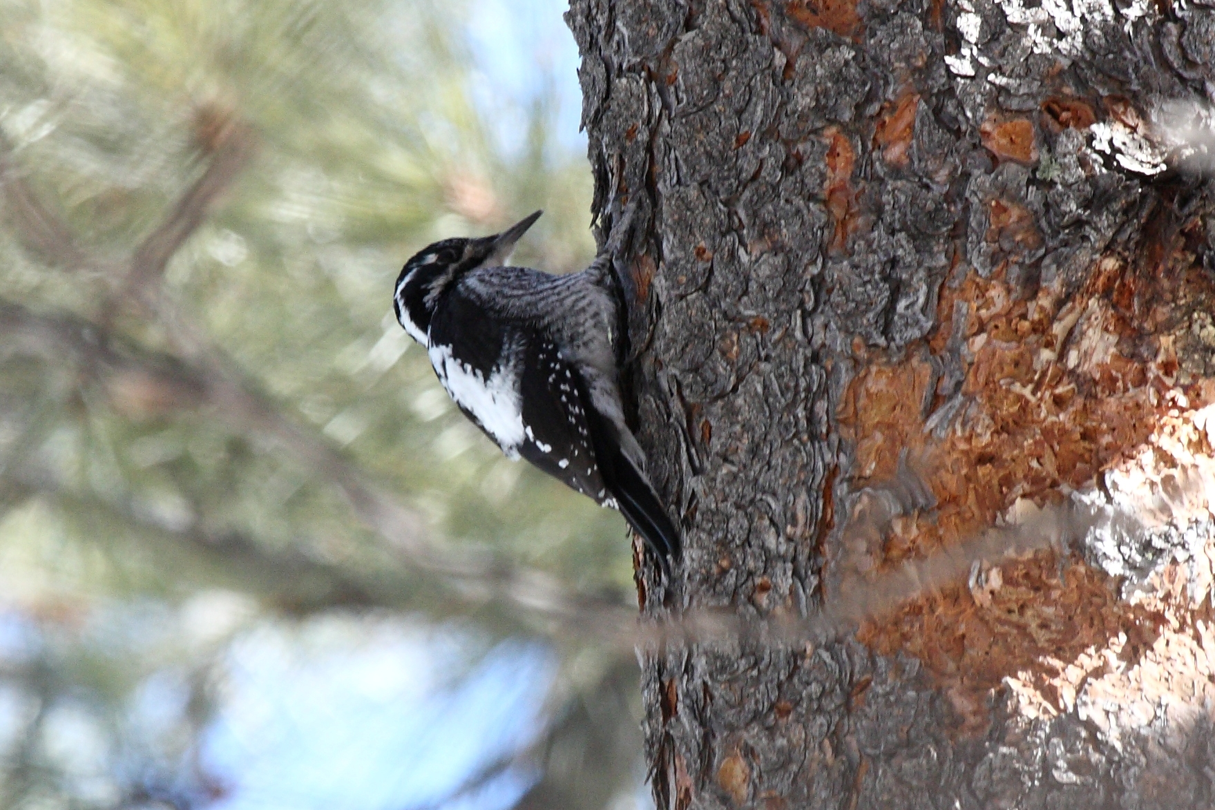 American Three-toed woodpecker (Picoides dorsalis), female. From Mormon Lake, Arizona.